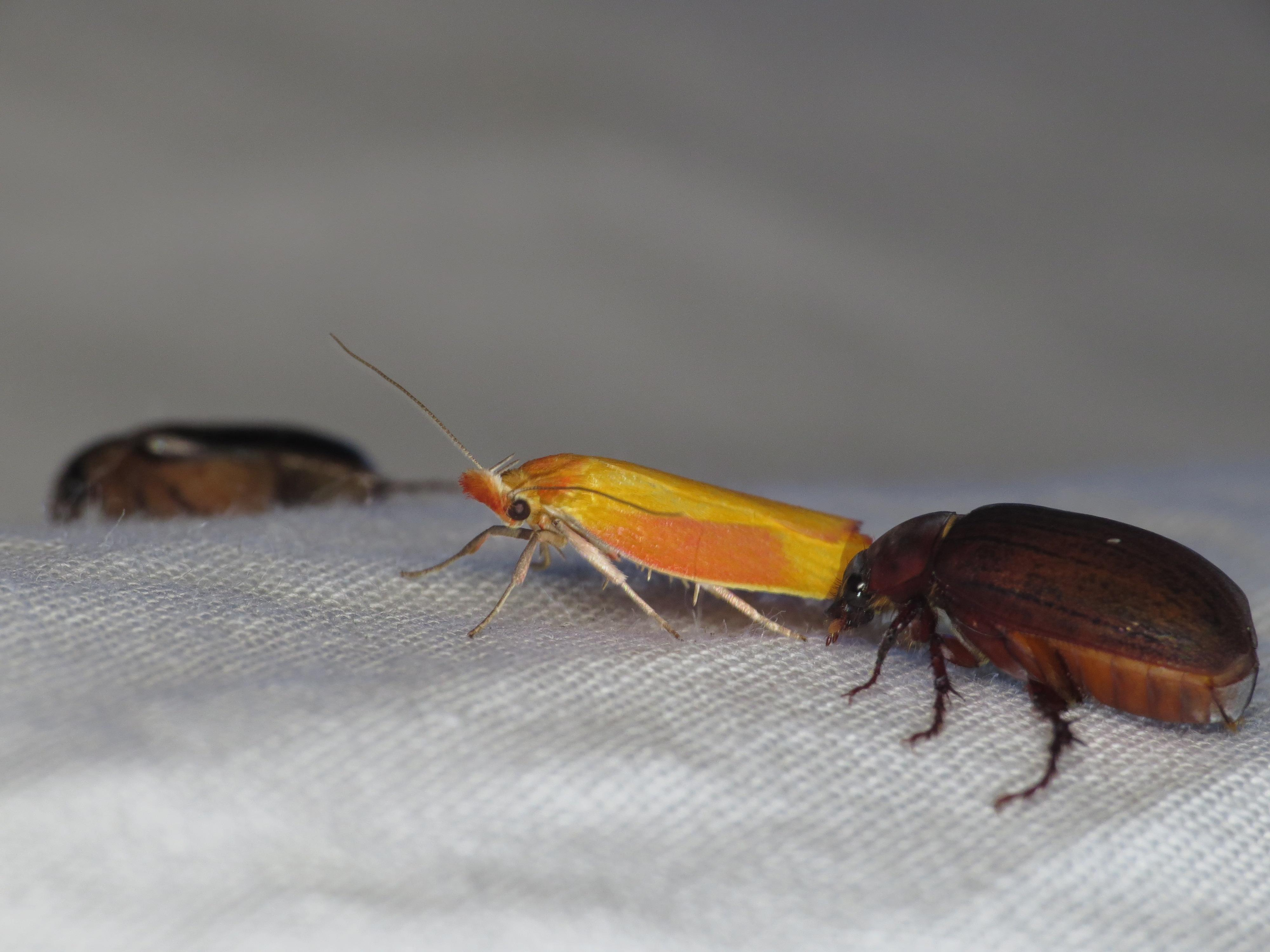 Wingia hesperidella (Meyrick, 1883), to actinic light, Blackheath, NSW, 9/10 November 2014